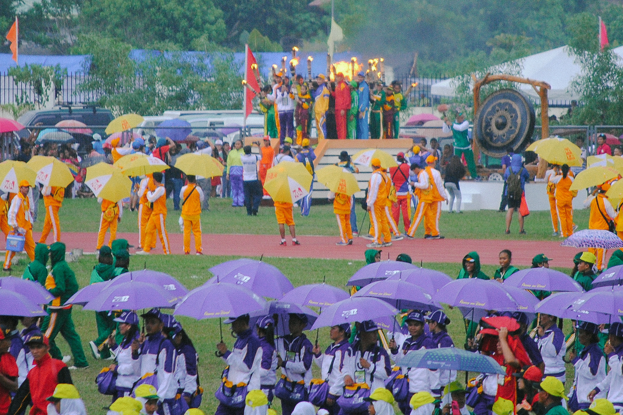 The 17 runners from the different participating regions light the cauldron during the Opening Ceremony of the Palarong Pambansa 2015 in Tagum City, Davao del Norte.